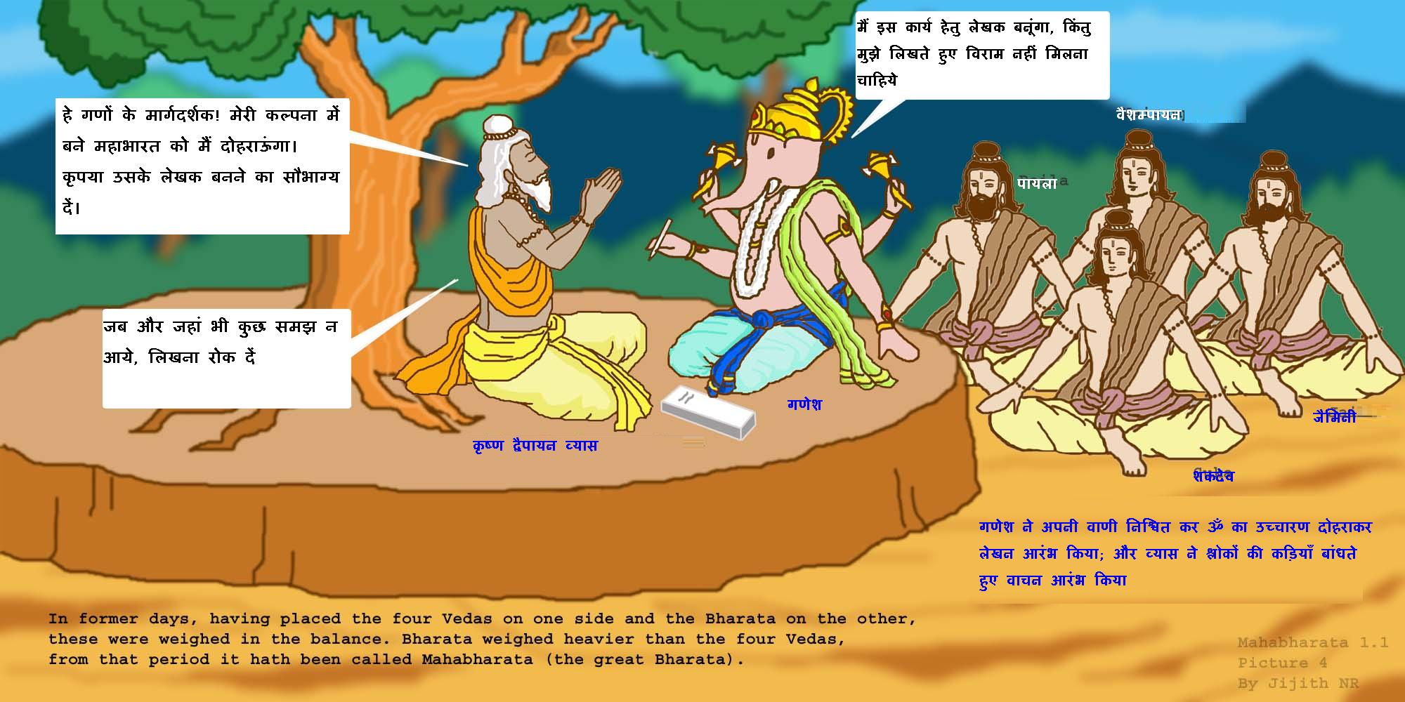 Ganesa writes Mahabharata as dictated by Vyasa